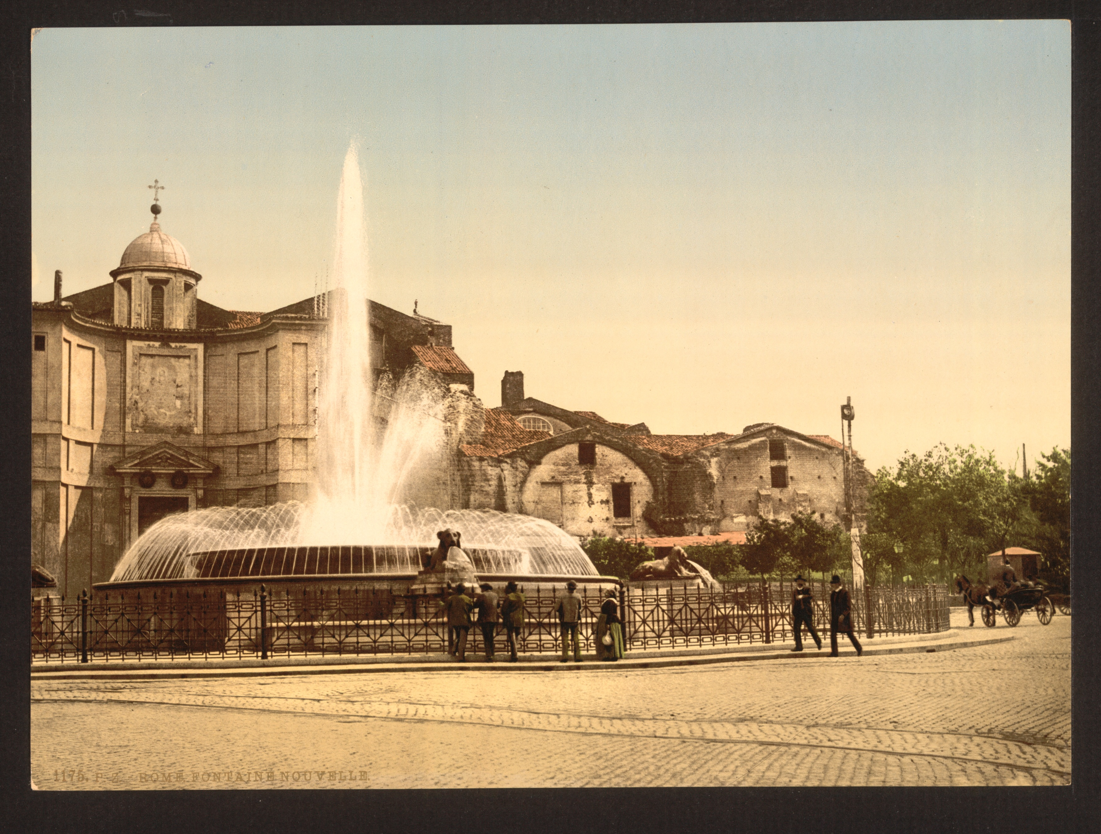 Print shows the Fountain of the Naiads in Piazza della Repubblica, Rome, Italy. (Source: Flickr Commons project, 2010)